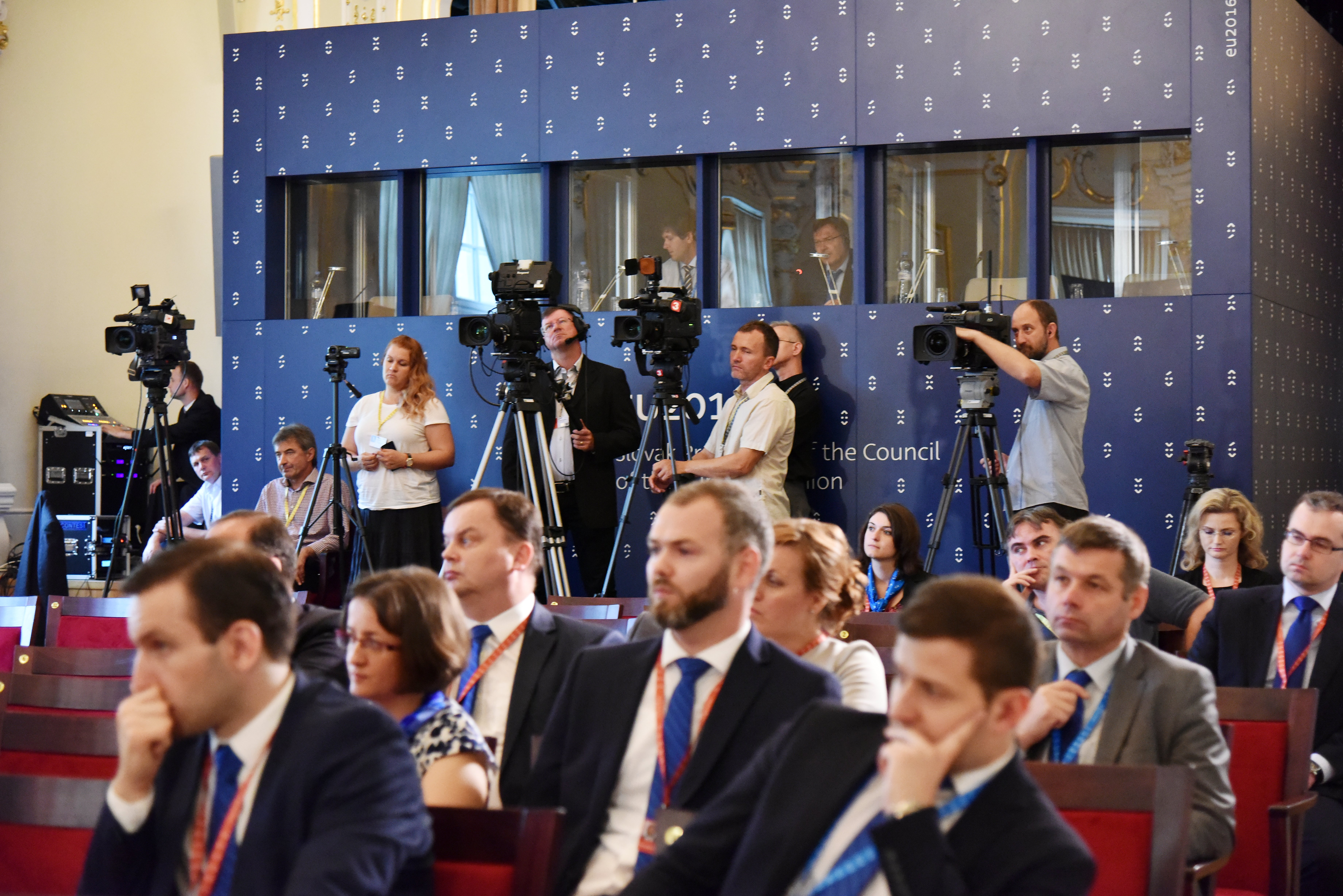 Slovakia, Mr. Ivan Korcok, State Secretary and Government Plenipotentiary for Presidency of the Council of the EU Informal Meeting of Ministers and State Secretaries for European Affairs (Informal GAC) ph halime sarrag